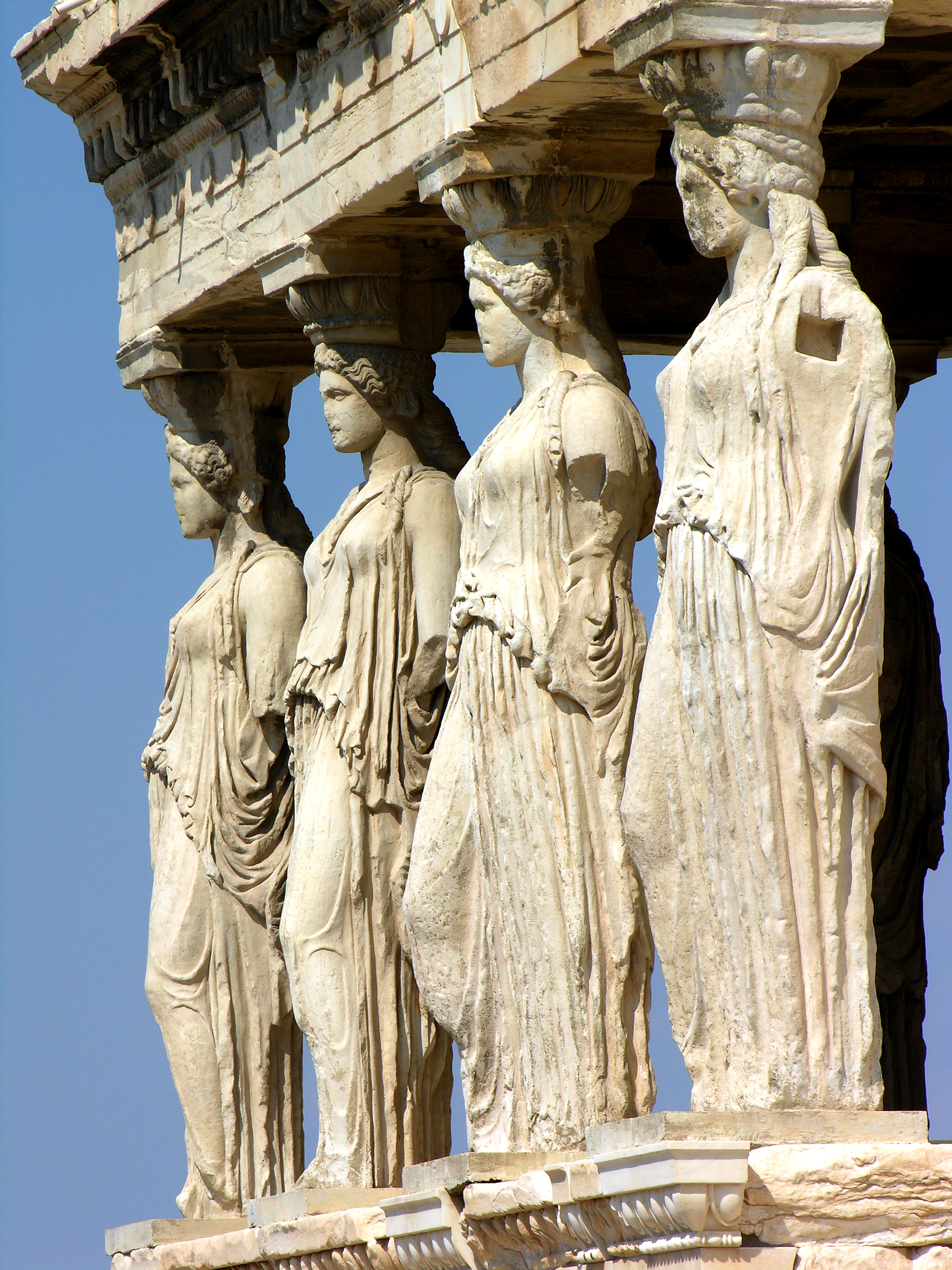 The Caryatids on the south porch of the Erechtheion (420 BC), Athens, Greece